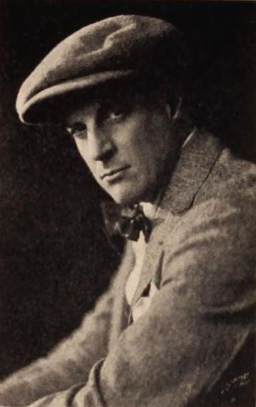 Director Edward H. Griffith, on page 40 of the February 12, 1921 Exhibitors Herald.